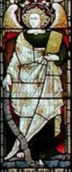 Detail of the west window in the nave of St Michael and All Angels Church in Hughenden, depicting the archangel Jeremiel with a book, which is the same attribute of the archangel Uriel. It seems to indicate that the figure could also represent Uriel, since Uriel has been equated or confused with Jeremiel, and the both are mentioned in 2 Esdras, though they are two different individual angels. The Latin inscription reads: “Respondit ad ea Jeremiel archangelus”. See St Michael & All Angels Windows: Nave - West.